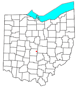 Locator map of the unincorporated community of Blacklick in Franklin County, Ohio, United States.